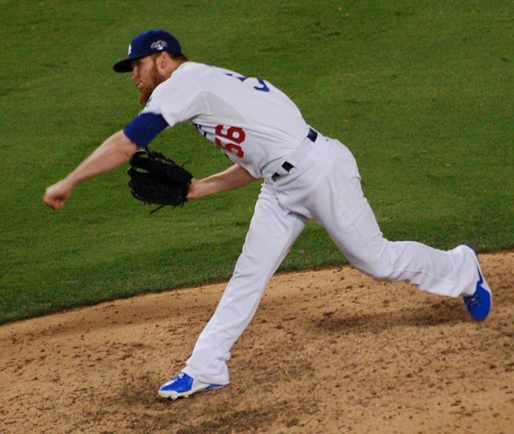 J.P. Howell in 2013 NLDS